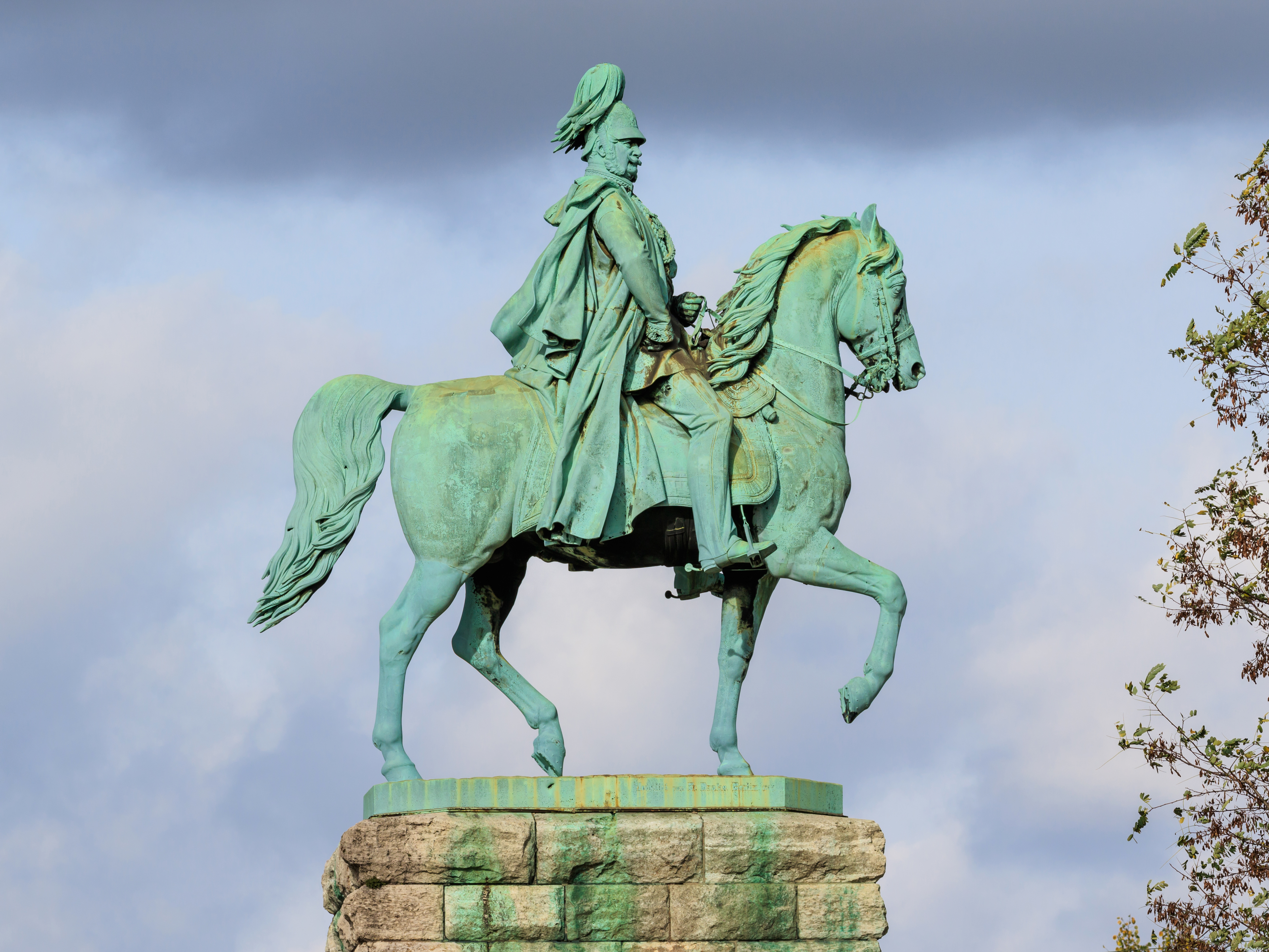 Equestrian statue of Wilhelm I at Hohenzollernbrücke in Cologne (Germany)